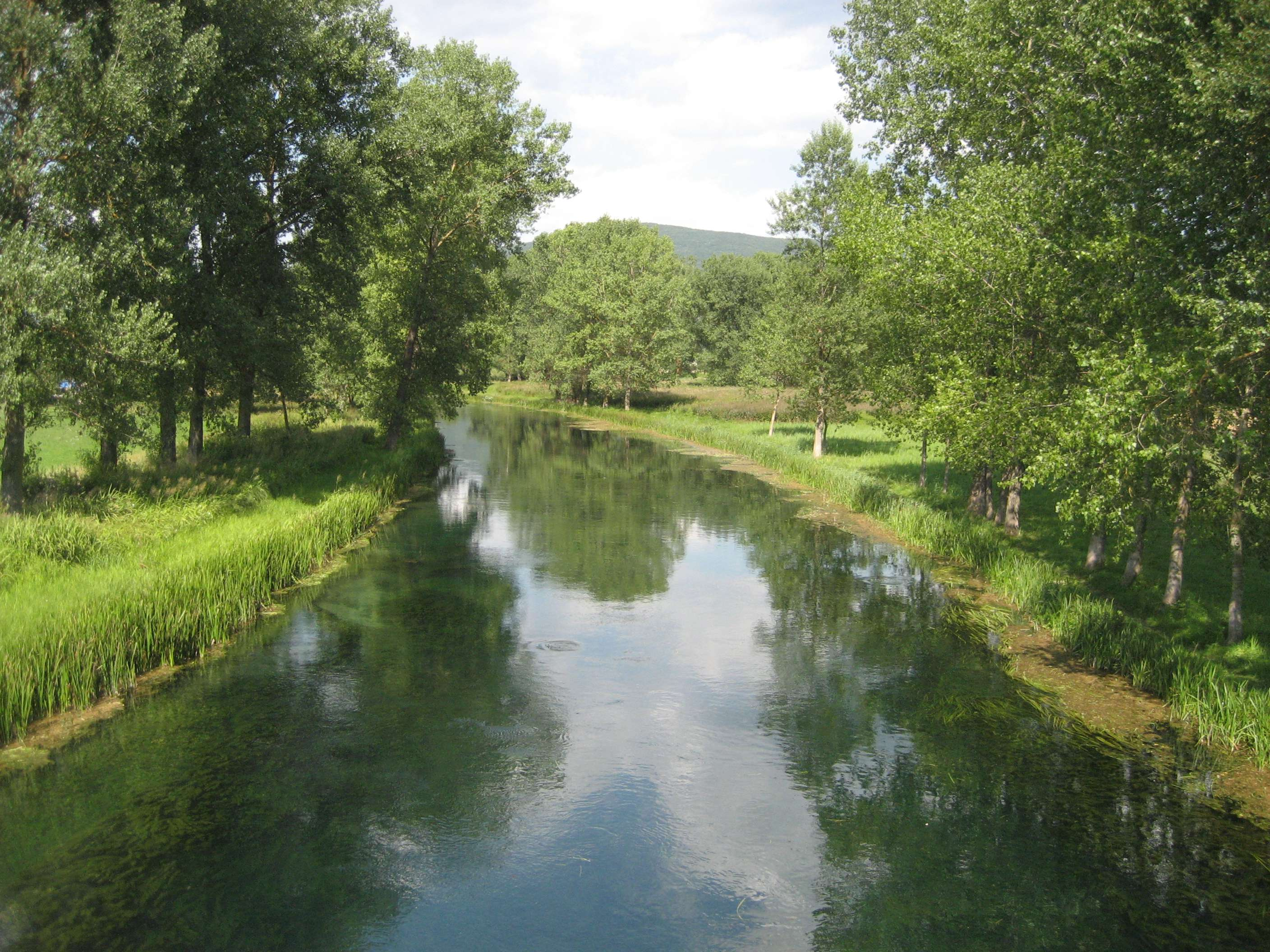 River Gacka, Croatia